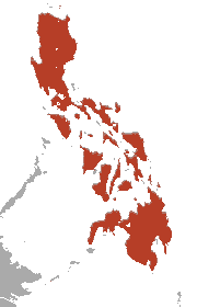 Greater Musky Fruit Bat (Ptenochirus jagori) range